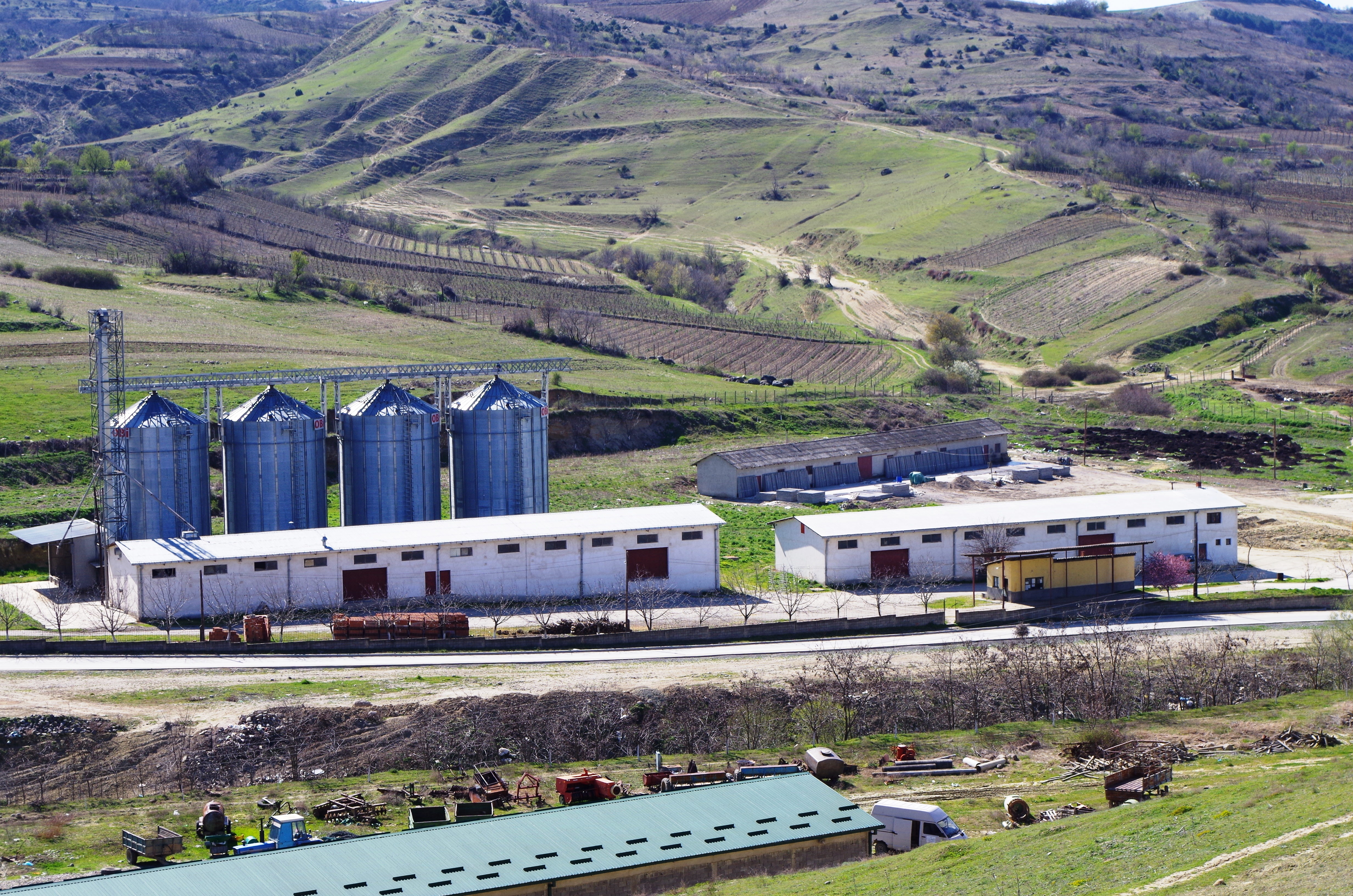 Winery "Venec" in the village Dolni Disan